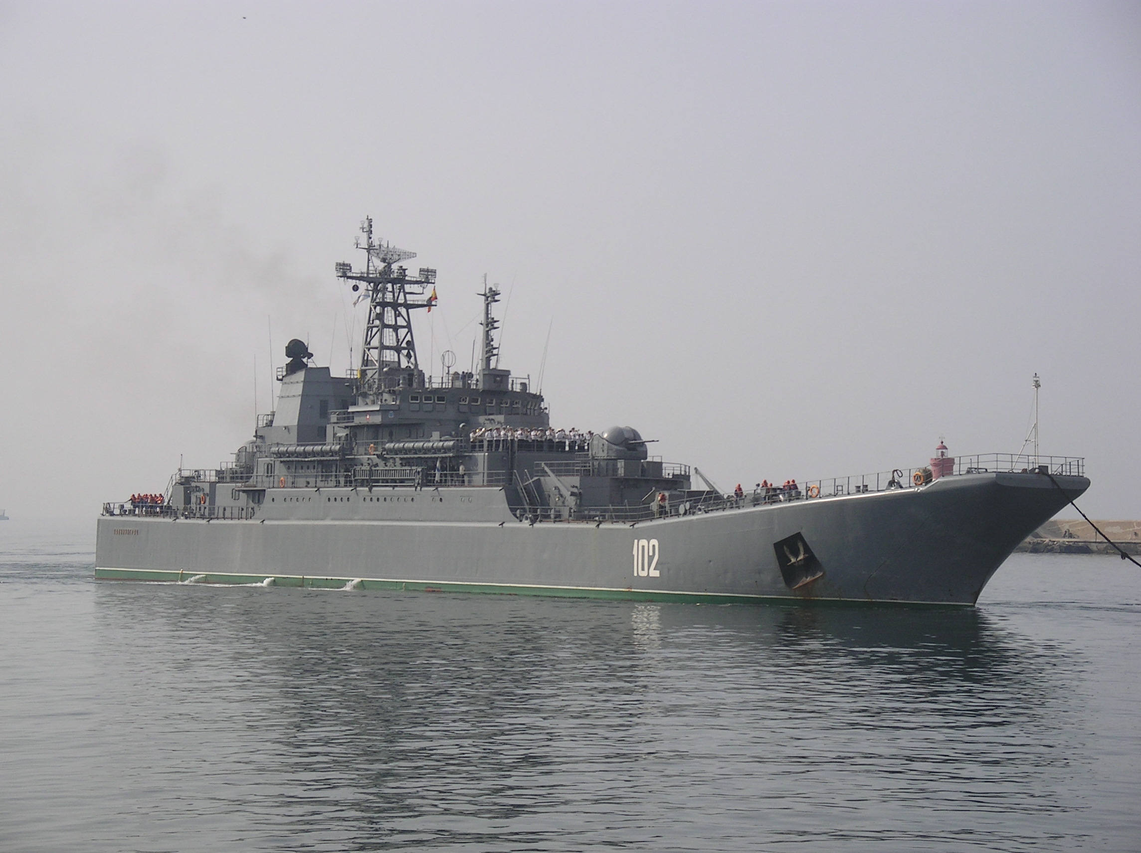 Russian large landing ship Kaliningrad in Cartagena.